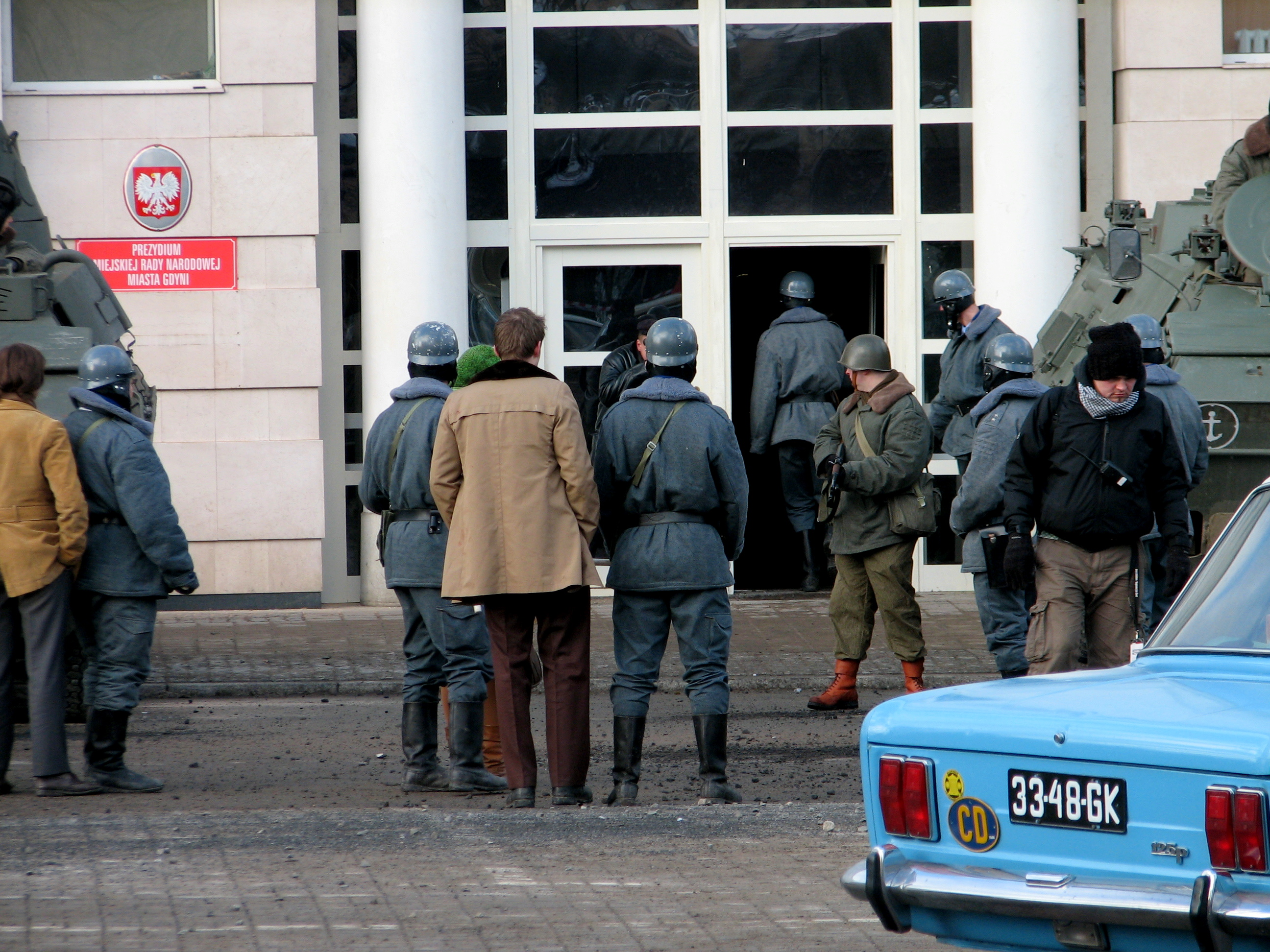 Filming of "Black Thursday" at intersection of ulica Świętojańska and Aleja Józefa Piłsudskiego in Gdynia. People on this picture are actors, extras, and film crew. "Black Thursday" is a film about Polish 1970 protests.